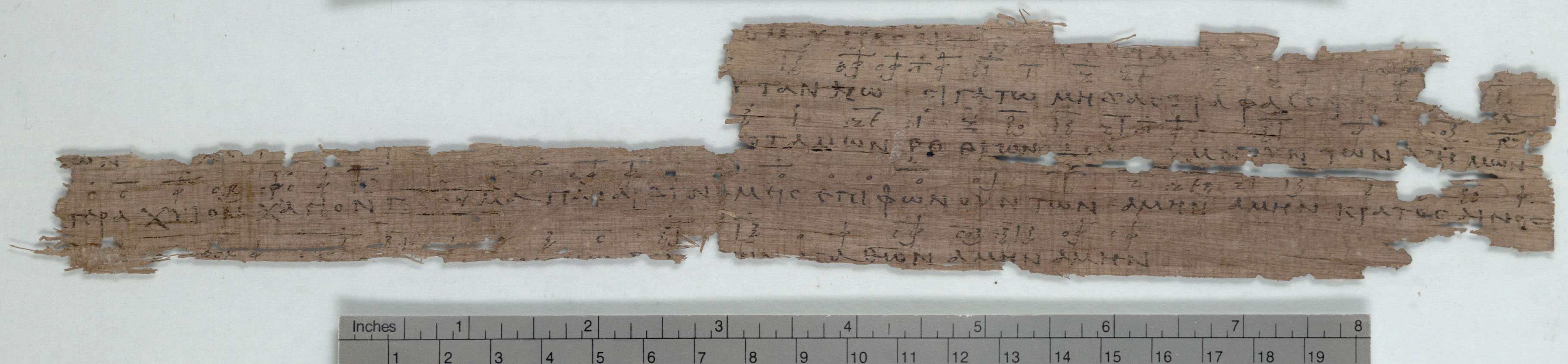 Papyrus Oxyrhynchus 1786, Late third century